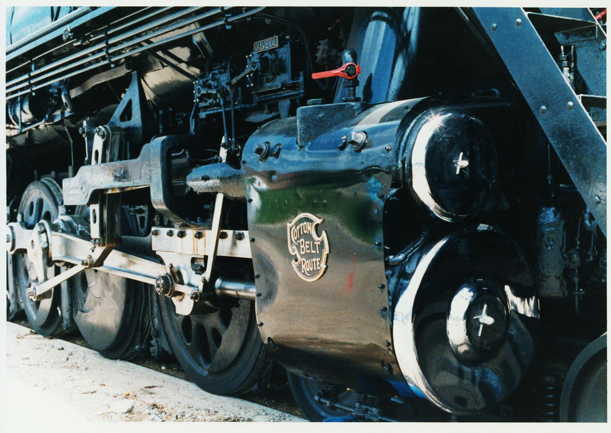 Close-up of Engine 819's cylinders & valve gear. Photo by Bill B. Bailey